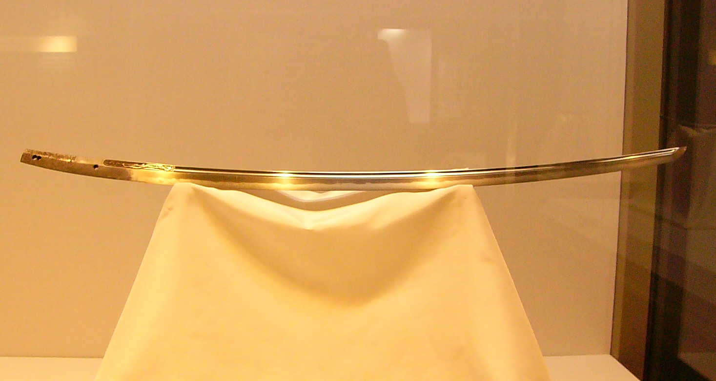 Kagemitsu living in Osafune in Bizen Province Bizen no kuni Osafune-jū Kagemitsu Kagemitsu Sword of Kusunoki Masashige, also called Little Dragon Kagemitsu (Koryū Kagemitsu) after a relief on the face of the blade, curvature: 2.7 cm (1.1 in) Kamakura period, May 1322 80.6 cm (31.7 in) Tokyo National Museum, Tokyo